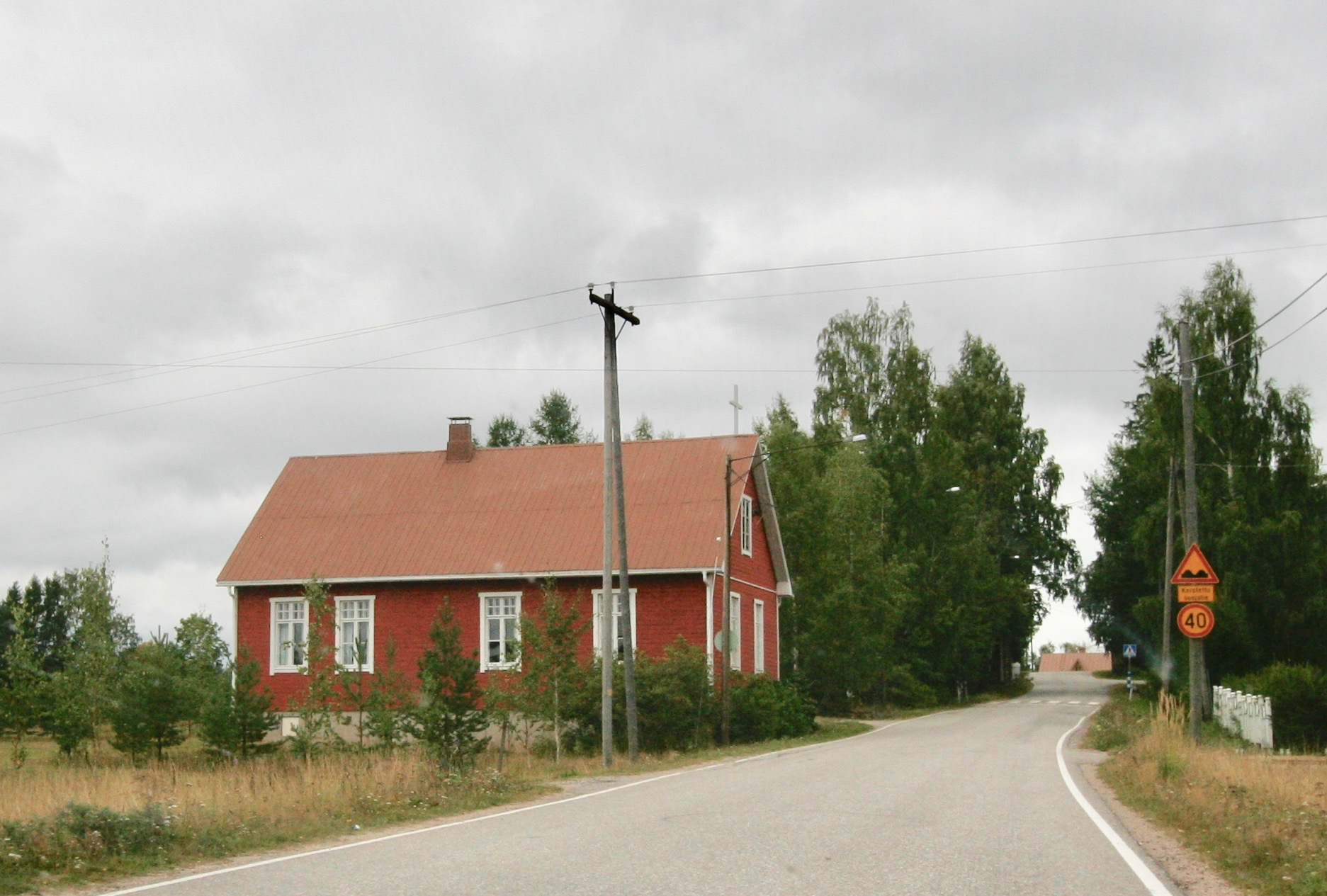 Religious building in Heinämaa, Orimattila